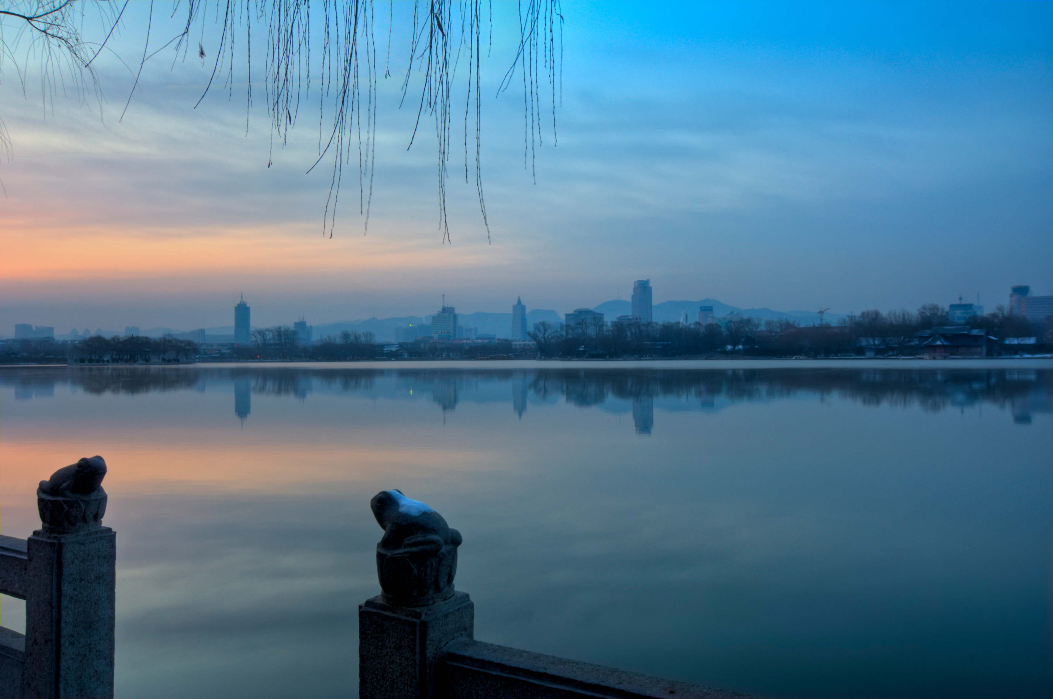 Photograph of Daming Lake in Jinan, Shandong, China reflecting mountains to the south of the city